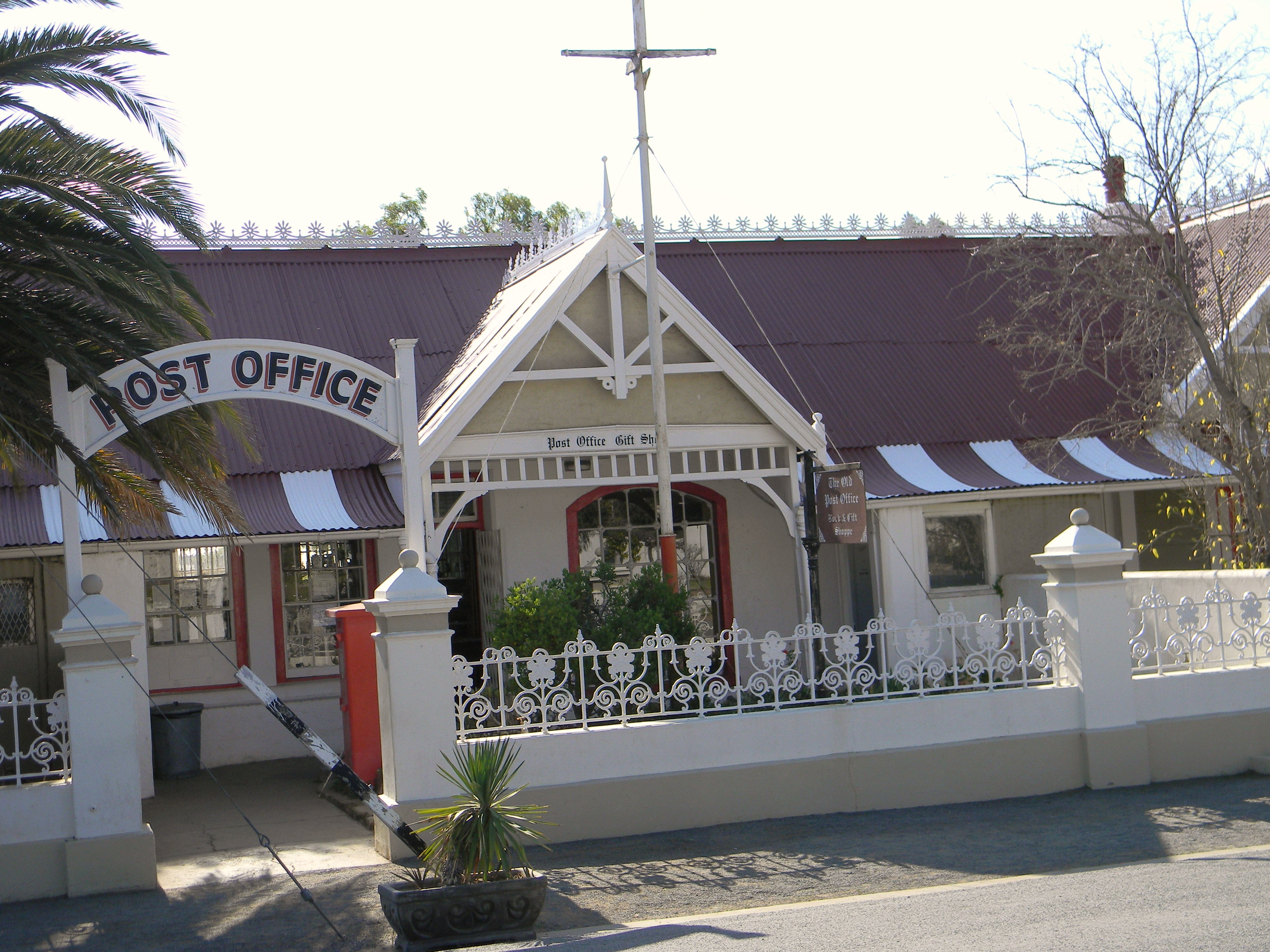 Matjiesfontein, Western Cape This media shows a South African Protected Site with SAHRA file reference 9/2/058/0001See also: External entry in South African Heritage Resource Agency database.